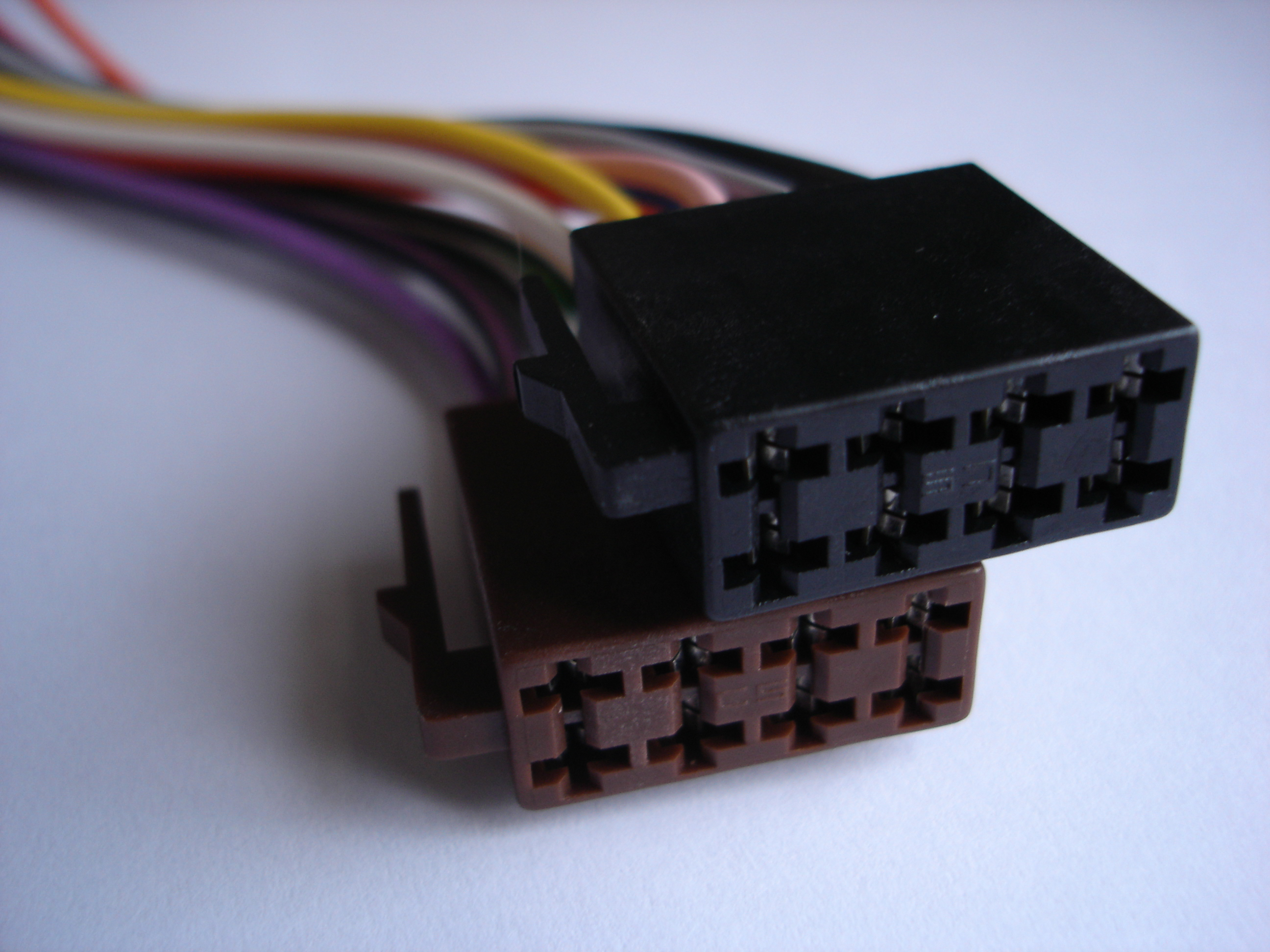 This is typical and standard connectors according to ISO 10487 for the head unit of a car audio system. These cables are typically attached to the car harness, and fits to the sockets in the head unit. The upper plug shows the power connector, usually in a black housing. Common naming is also A-Plug The lower plug shows the loudspeaker connector, usually in a brown housing. B-Plug For mechanical distinguishing the lock notches are placed in different locations.